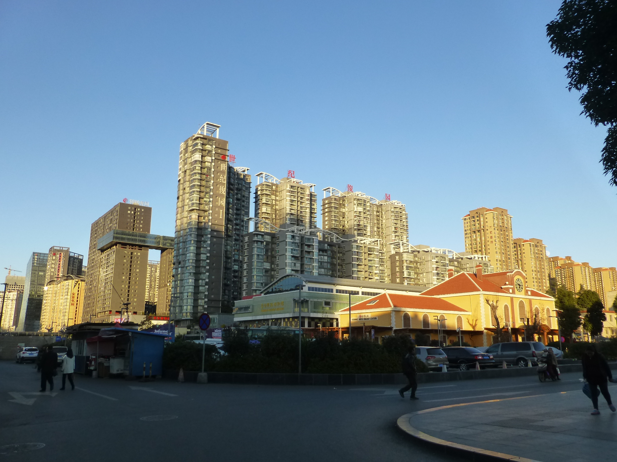 An outside view of Kunming North Railway Station (the Yunnan Railway Museum)